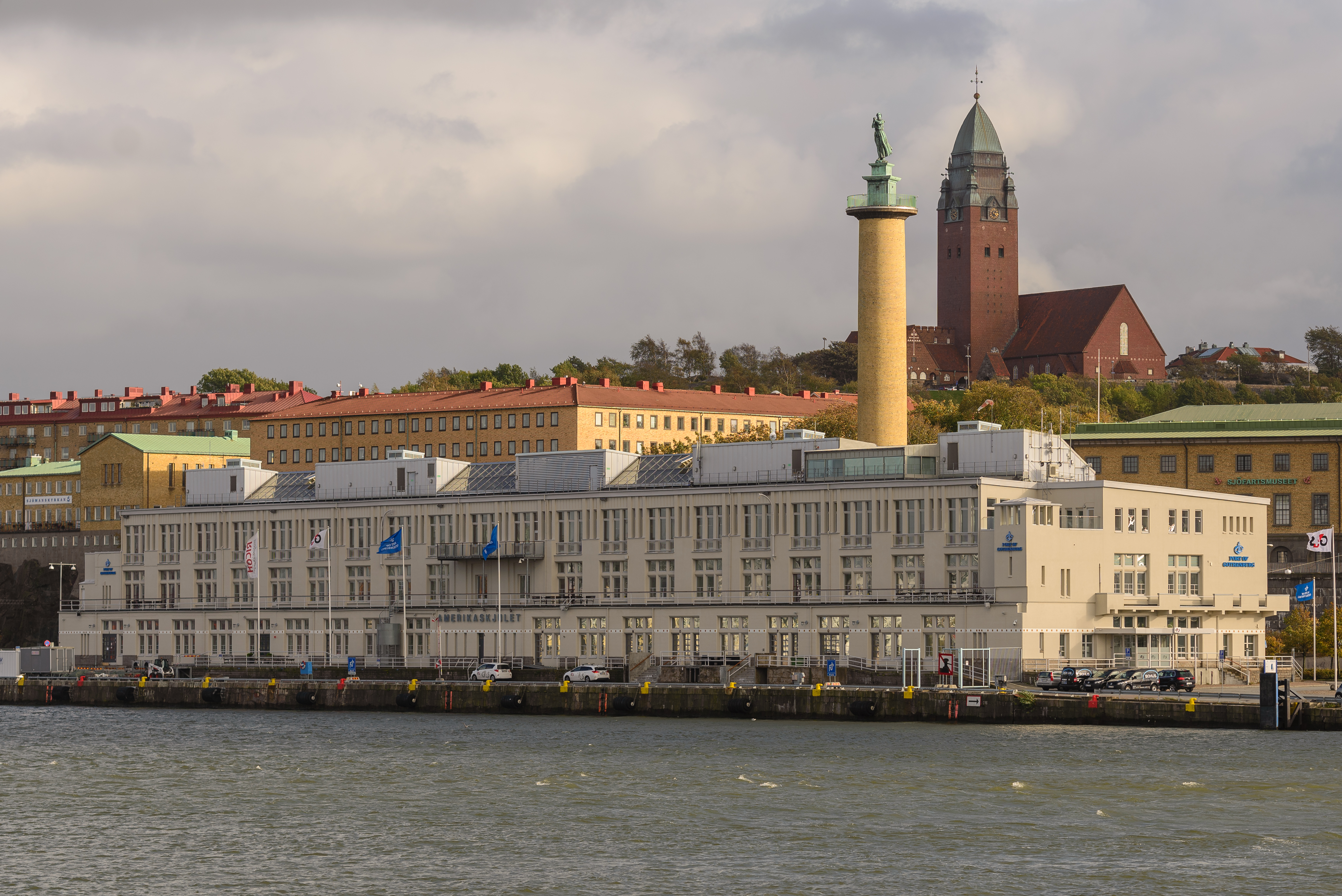 The port termina Amerikaskjulet ("The American Shed") seen from Göta älv (river). Used by Swedish American Line. Gothenburg, Sweden